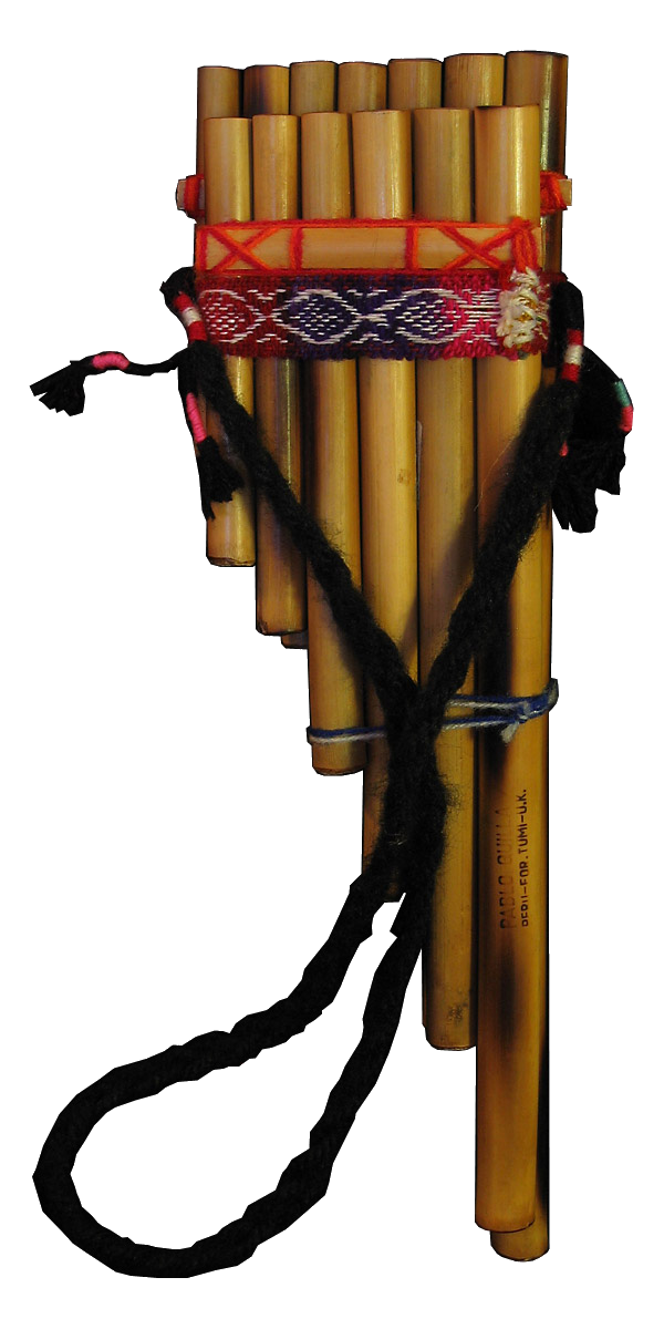 Siku panpipe with transparent background.